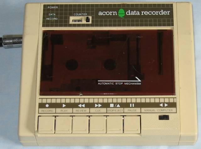 Acorn ALF03 Data Recorder (top).The Acorn ALF03 Data Recorderis designed for use with the BBC Microcomputer or Acorn Electron. It can play C15 to C60 cassettes. It can be controlled from the computer or manually using the key at the front. It is powered either by 4 xHP11 1.5v batteries or from a mains adaptor (see socket on left side.The Acorn ALF03 data recorder Operating Instructions are HERE .